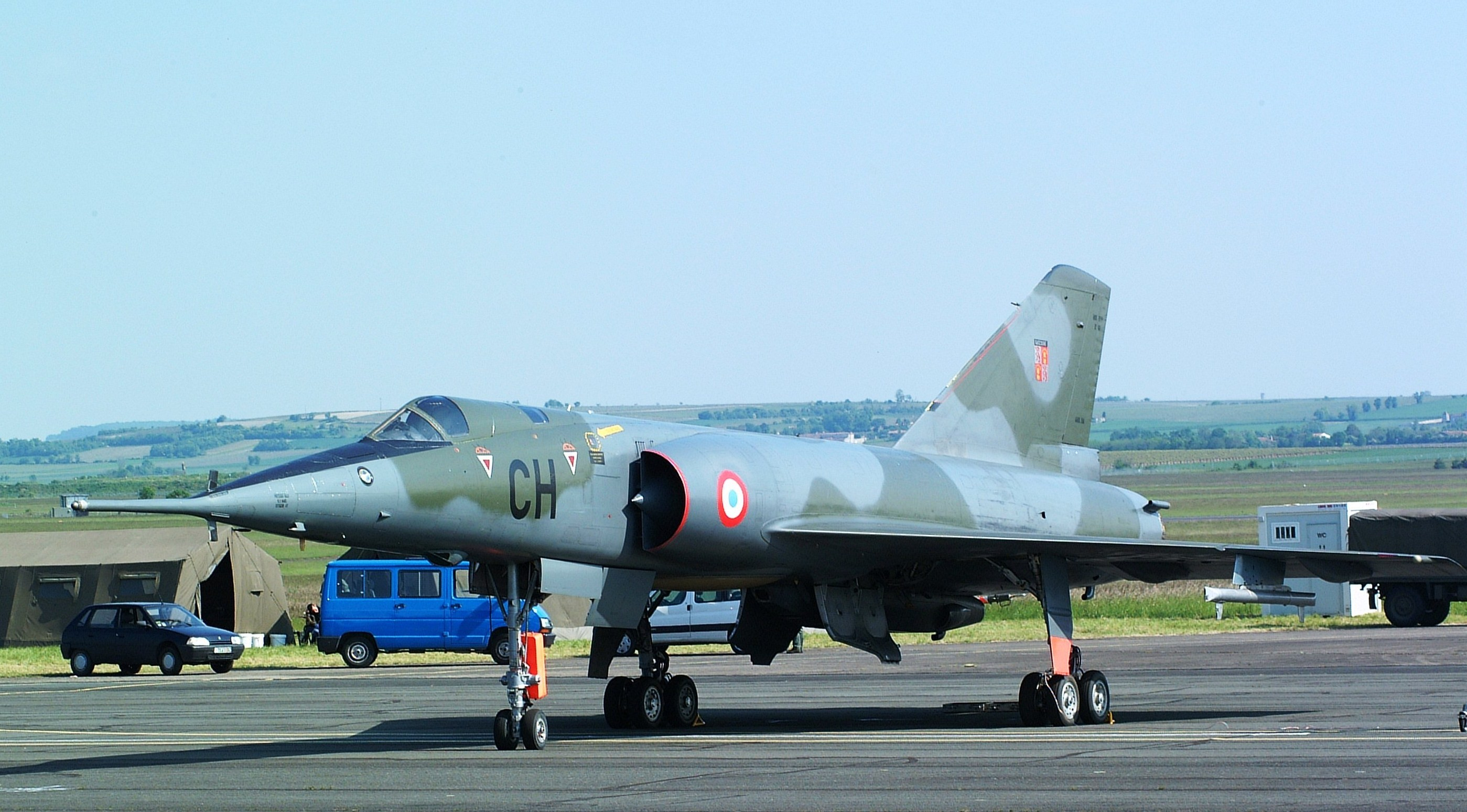 Before they were retired the lovely old Mirage IV relinquished the nuclear role for which it was designed and became a reconnaissance platform